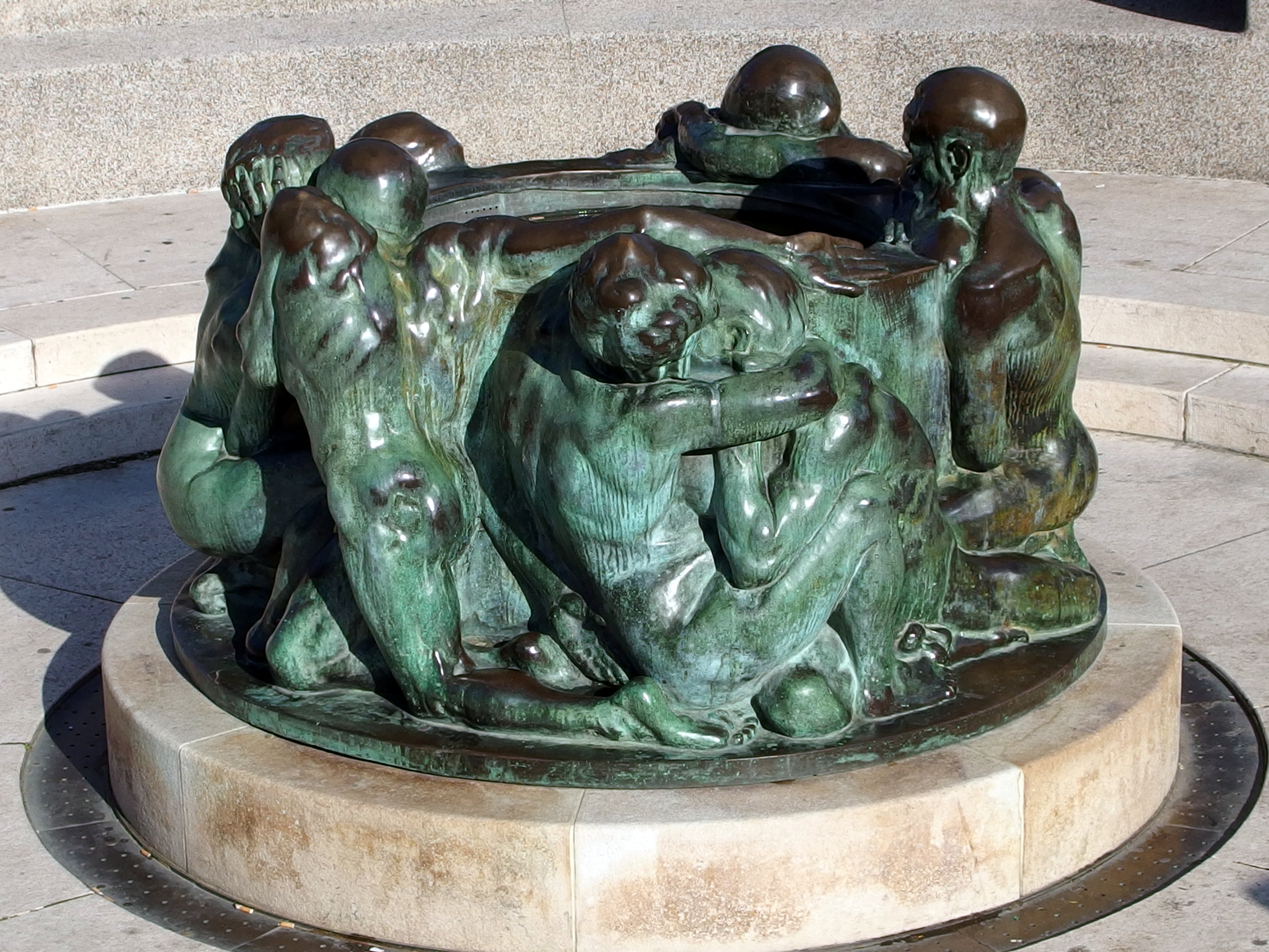 2013-06-09 in Zagreb.